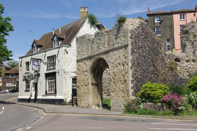 St James Street, Dover A fascinating hint of old Dover on this short street at the foot of the castle hill. The White Horse dates back to the 14th century (although most of the visible building is 19th century). The remains of St James' Church, which was destroyed by enemy action in the Second World War, are preserved as a monument to the people of Dover.